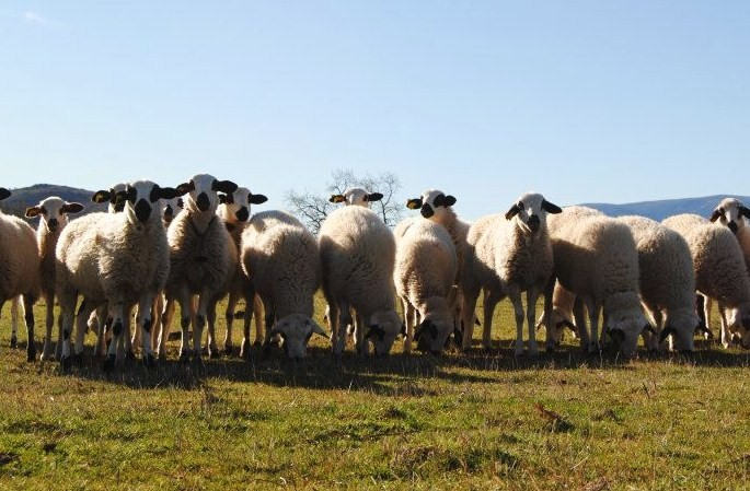 Group of Ojalada lambs